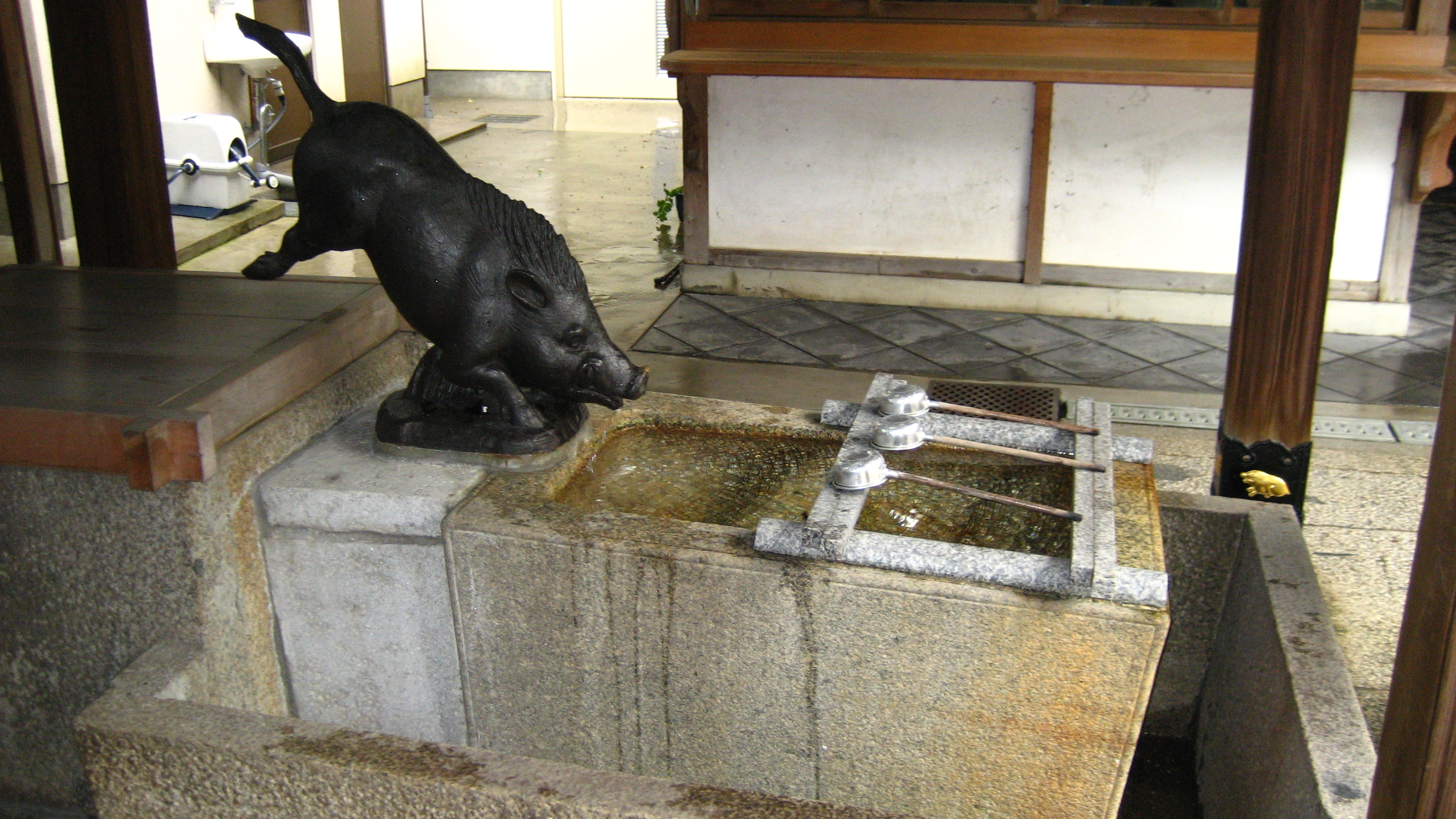 Go-oh shrine in Kyoto, Japan. taken by uploader.